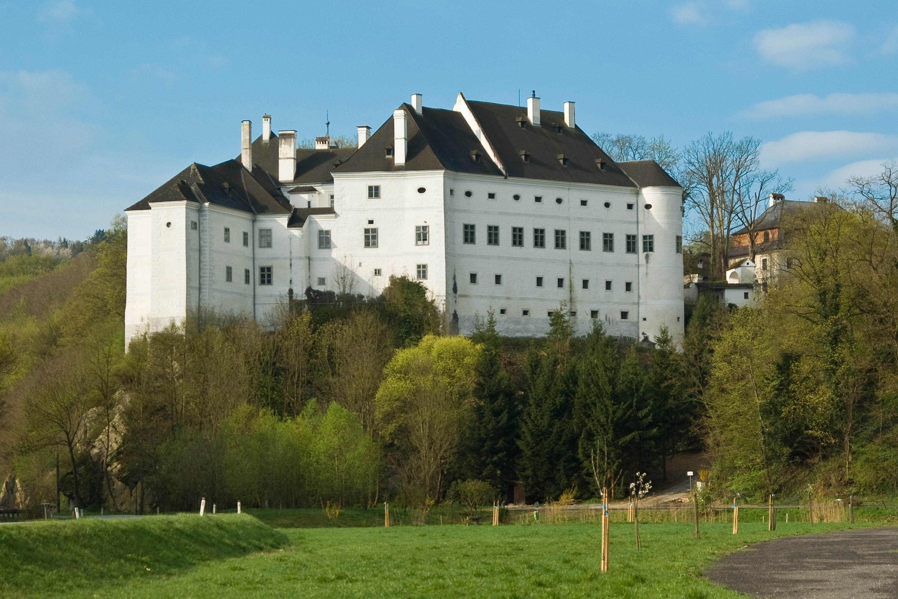 Leiben Castle in Lower Austria.